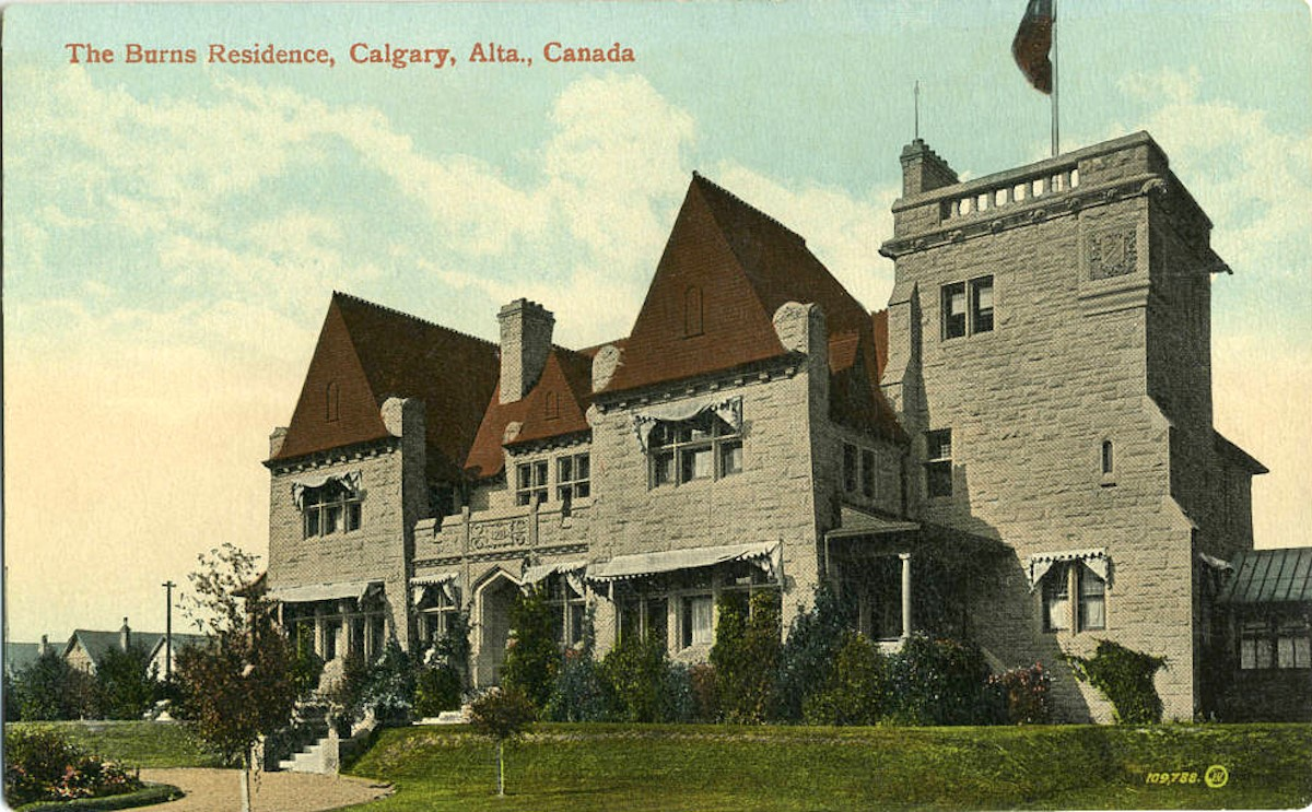 Artist rendition of Burns Manor